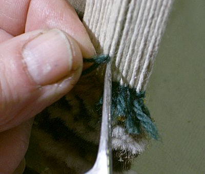 carpet knotting